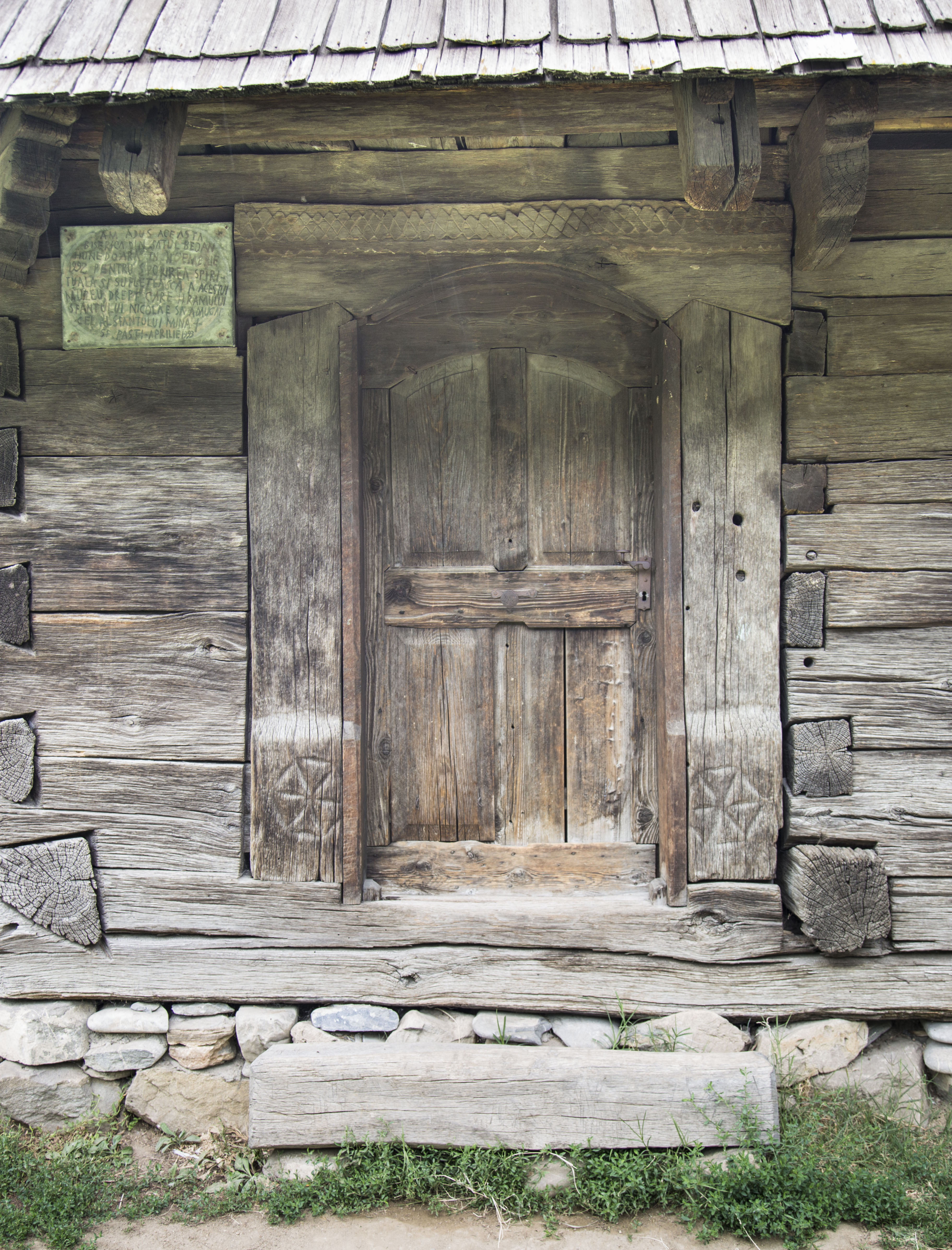 Wooden church in Bejan, Hunedoara county, transfered in Bucharest in 1992.